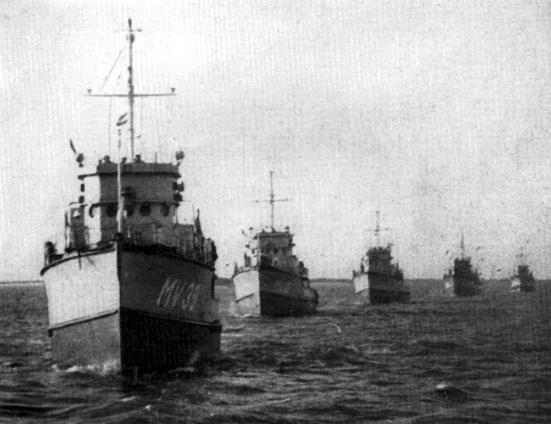 A flottilla of Koninklijke Marine (Royal Netherlands Navy) BYMS-class minesweepers sweeps the coast of the Netherlands in 1948. The BYMS-class was a class of wooden motor minesweepers, part of the U.S. Navy YMS-Yard-class minesweepers. 150 ships destined for UK (BYMS meaning "British"YMS) were launched from 1941 to 1943. Some wer later transferred to the Netherlands.